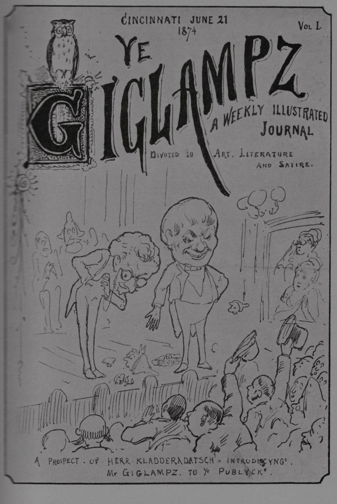 Cover page of first issue of "Ye Giglampz," a satirical weekly published in 1874 by Lafcadio Hearn and Henry Farny, as reproduced on facing p. 36 of "Concerning Lafcadio Hearn," a book published in 1908, oclc=663438059.